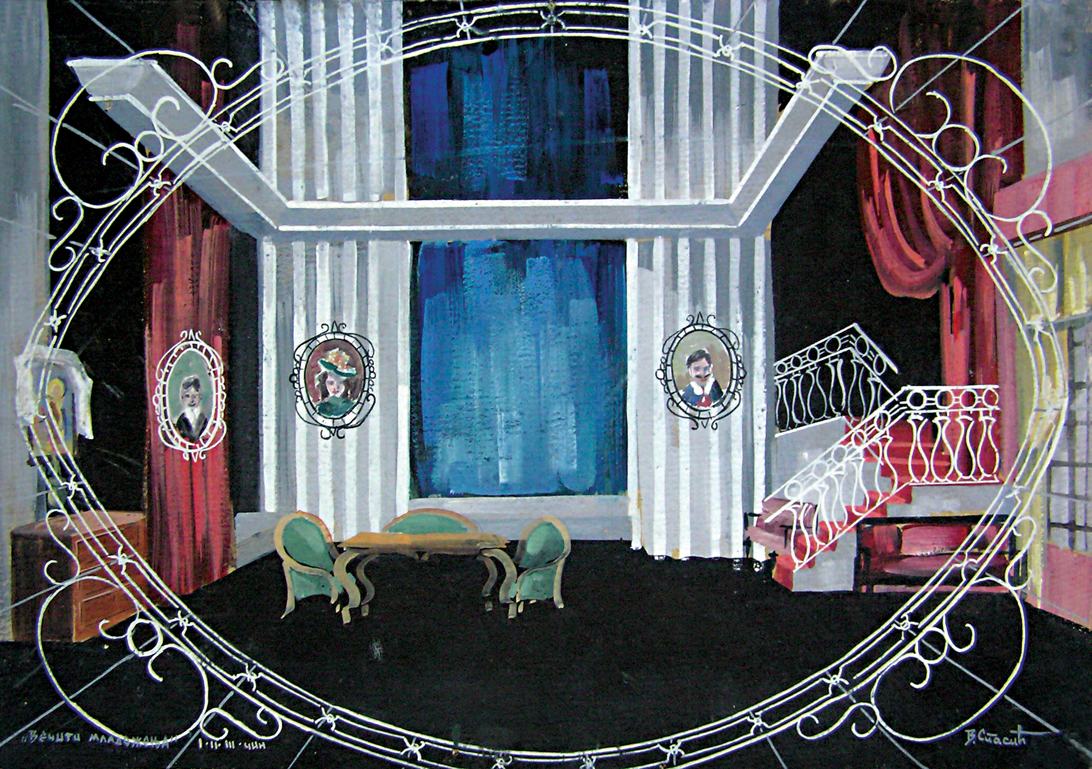 Vladimir Spasić, Groom forever, J. Ignjatović (scenery sketch), NT Sombor, 1963 Srpski (latinica): Vladimir Spasic, Večiti mladoženja, J. Ignjatović (scenografska slika), NP Sombor,1963. Српски (ћирилица): Владимир Спасић, Вечити младожења, Ј. Игњатовић (сценографска слика), НП Сомбор, 1963.